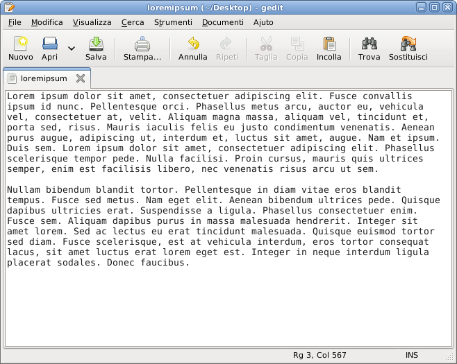 Gedit screenshot (Italian version)